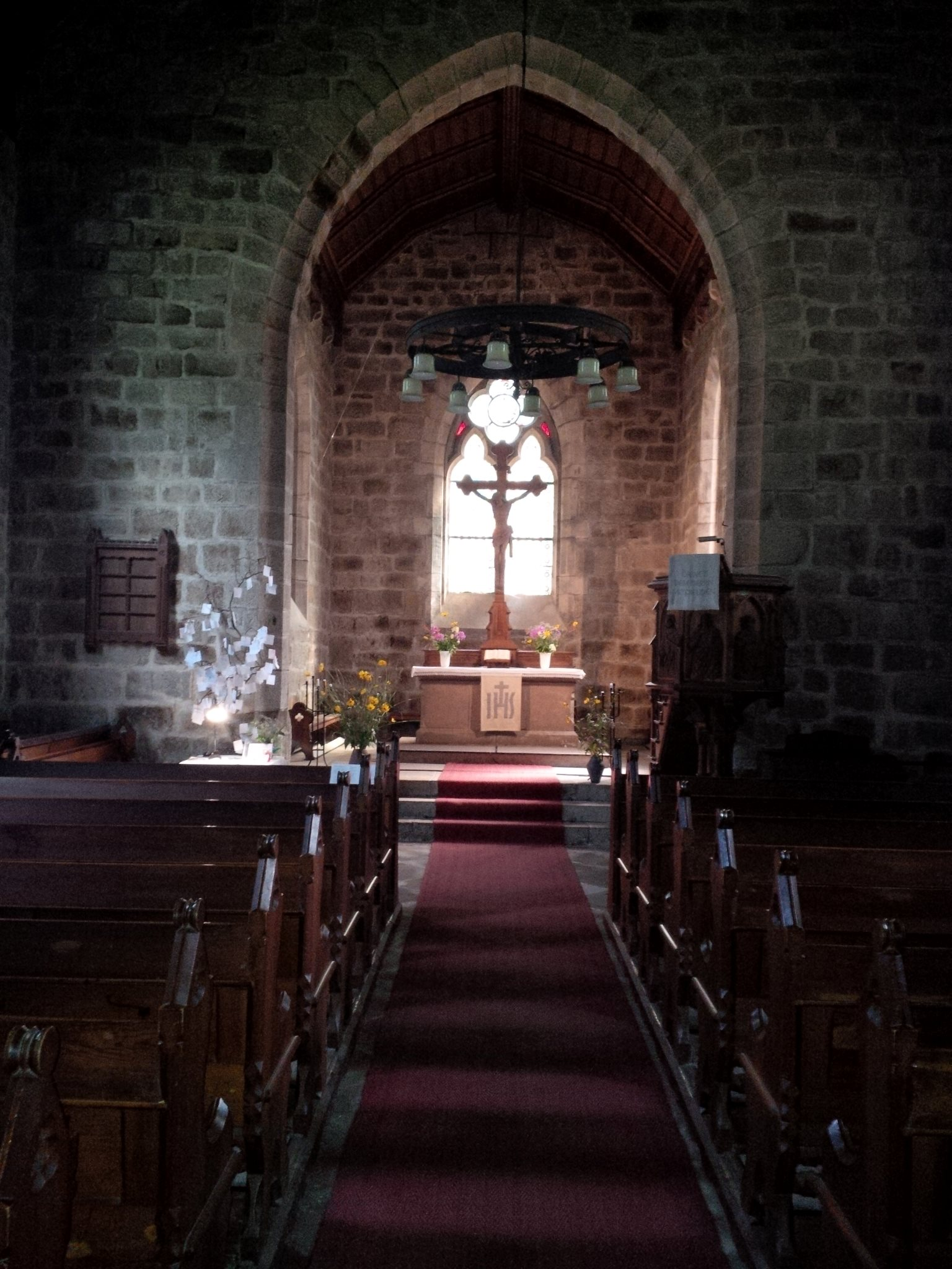 Interior of the Bergkirche Schierke Church